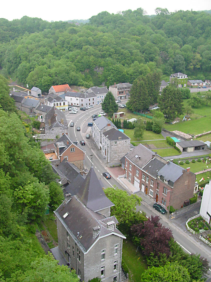 Photograph of part of Samson from the Roman fort on the hillside above.